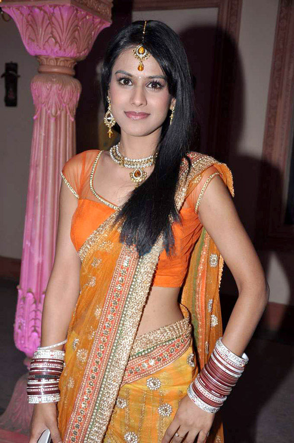 Nia Sharma on the sets of Yeh Rishta Kya Kehlata Hai